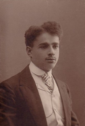 Basin Meer